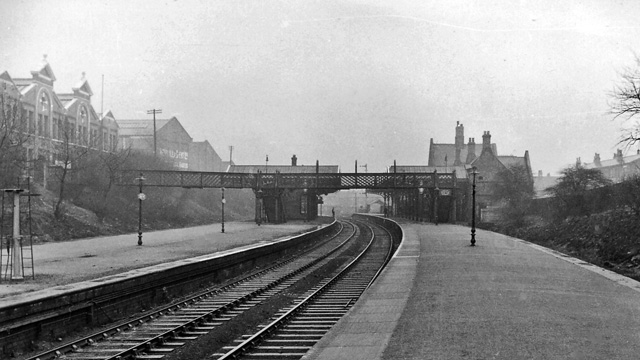 Belle Vue (Manchester) Station. View southward in 1962, towards Reddish, New Mills, Stockport etc., ex-GC & Midland Joint line, Manchester (London Road, now Piccadilly) - Reddish, New Mills, Hayfield, Stockport and Macclesfield lines. This station is very different now, although still open.